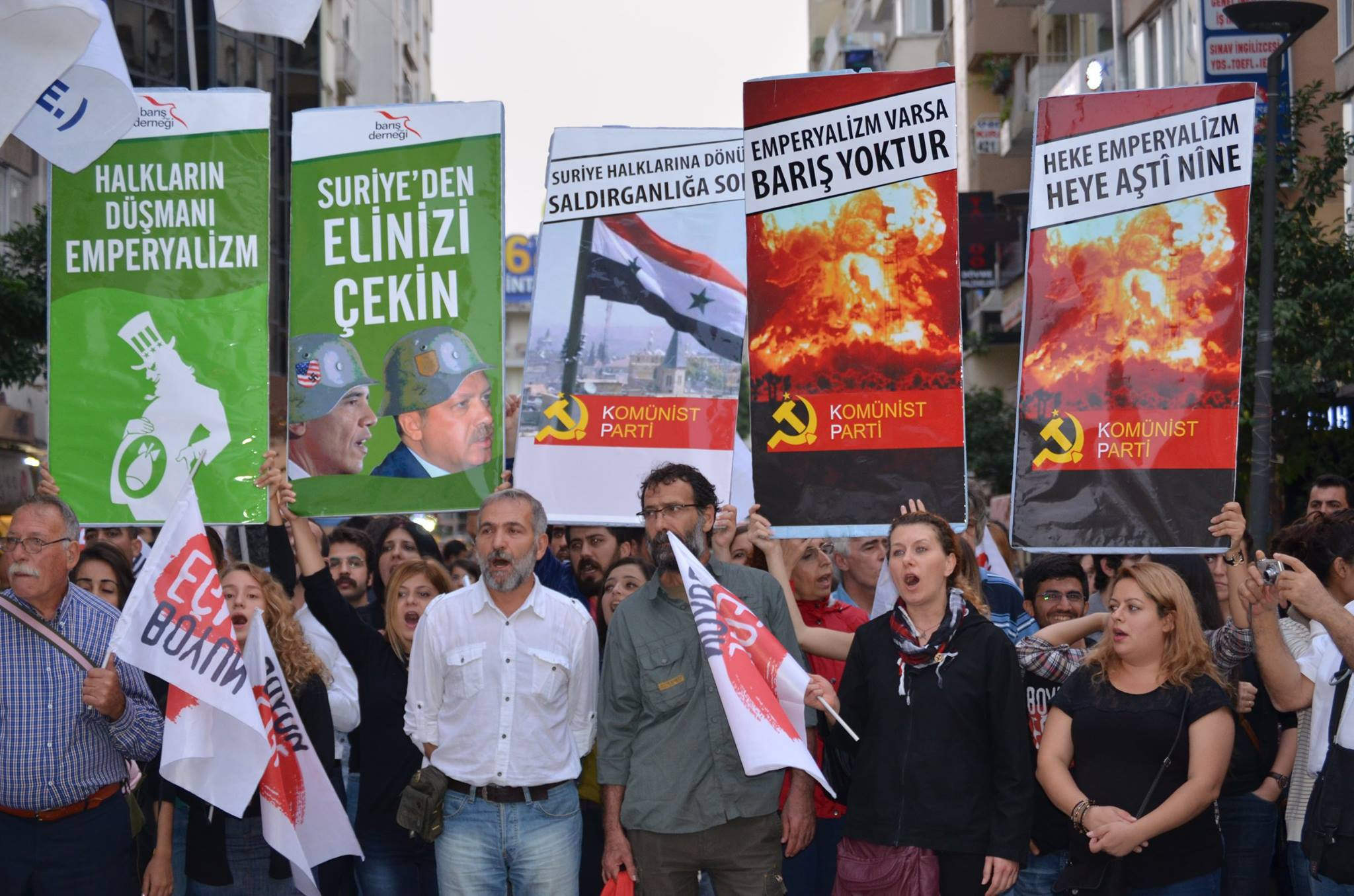 Communist Party 12102014 Izmir peace march